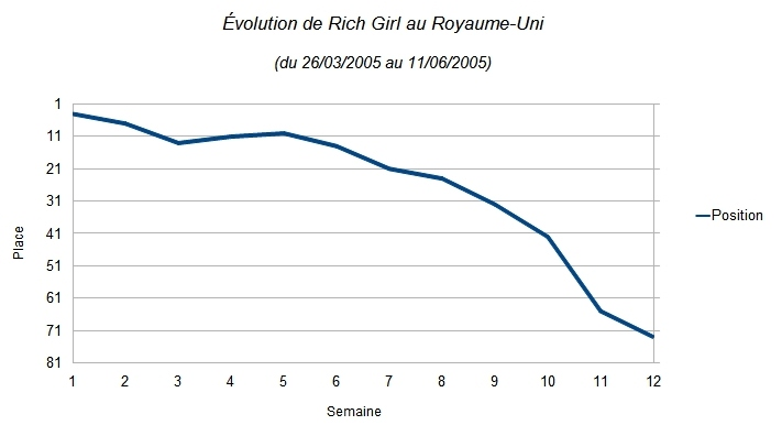 Evolution in the UK singles chart of Gwen Stefani's song, Rich Girl.